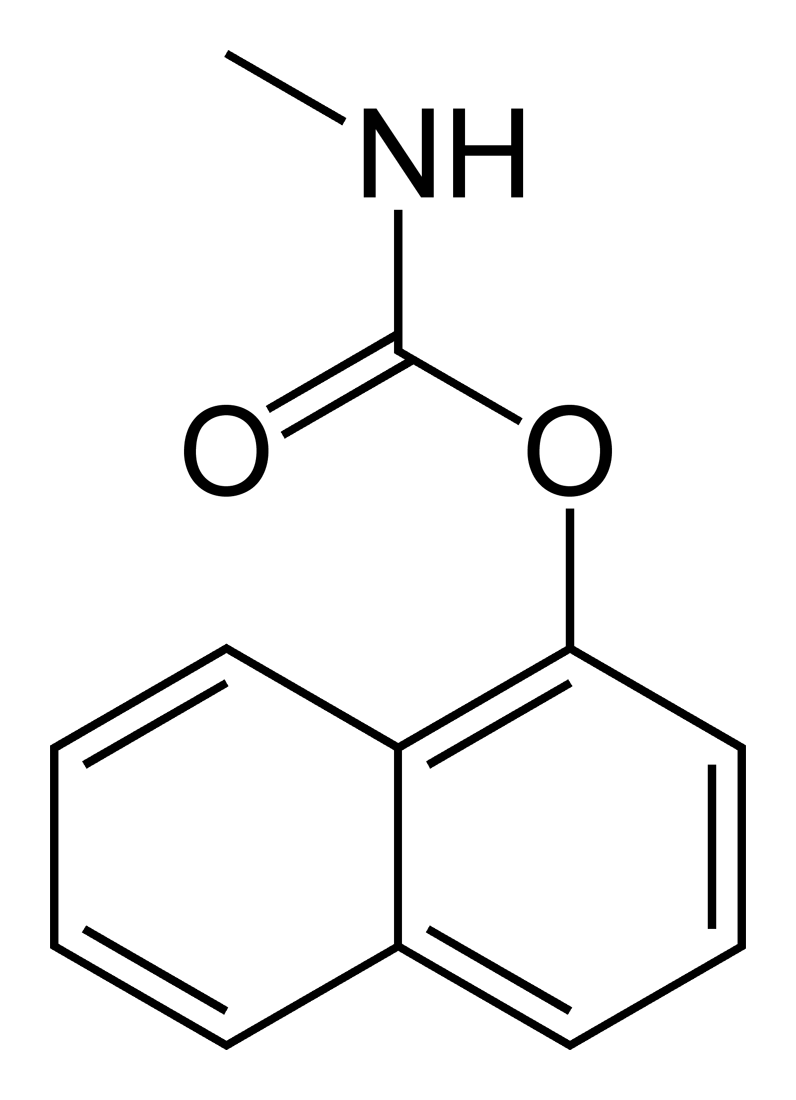 Skeletal formula of carbaryl, close to the conformation found in the solid state. X-ray crystallographic data from Christine Sandoza, Pierre Lescab, Jean-François Narbonnea and Alain Carpy (2000). "Molecular Characteristics of Carbaryl, a CYP1A1 Gene Inducer". Archives of Biochemistry and Biophysics 373: 275-280.